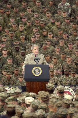 U.S. President George W. Bush addressing Marines at Camp Pendleton in December, 2004.